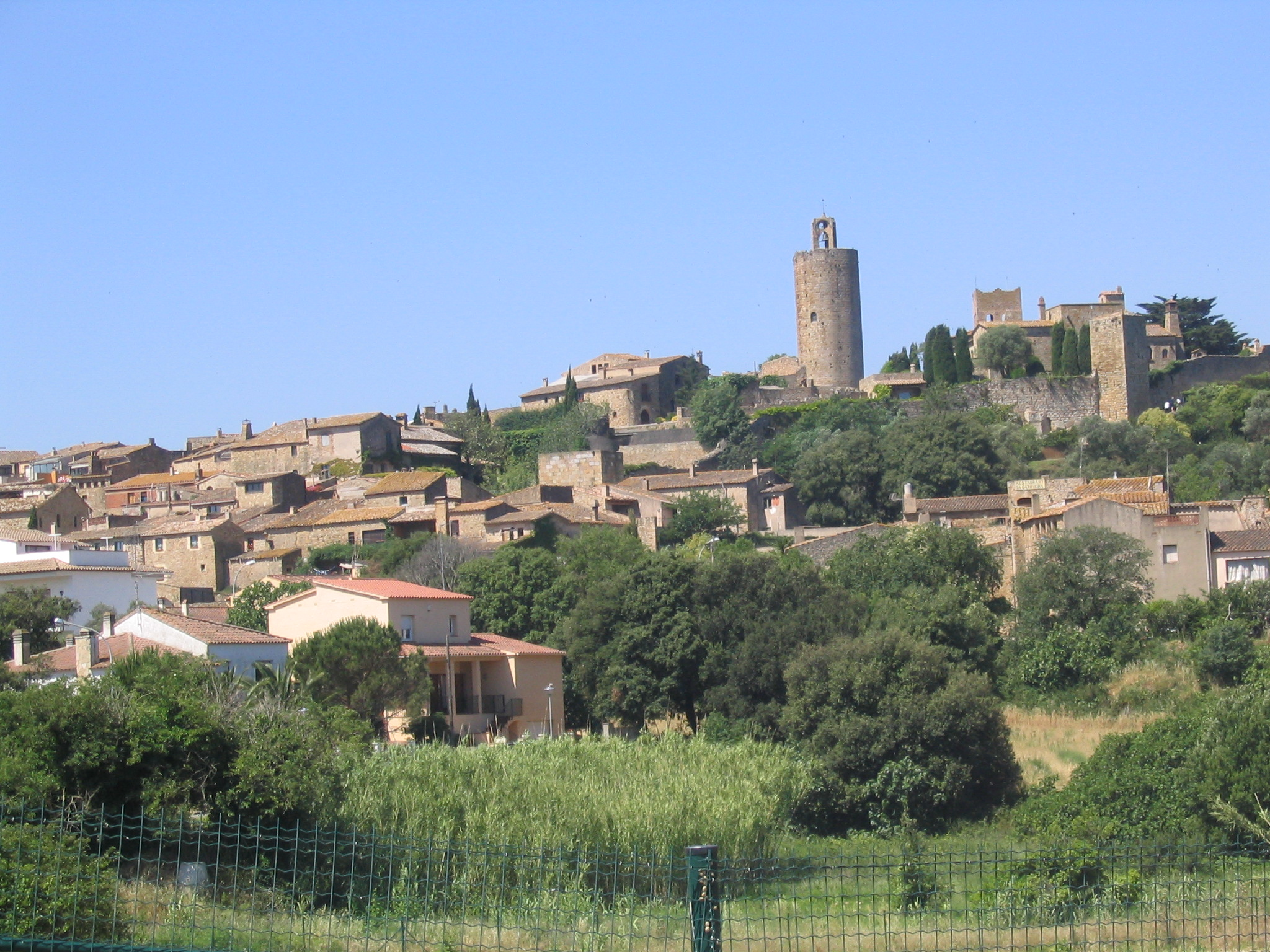 View of Pals